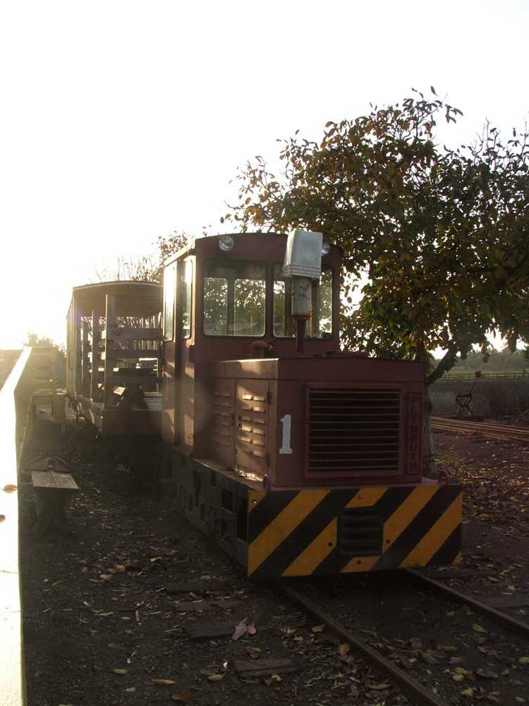 National Register of Historic Places listings in Alameda County, California. George Washington Patterson Ranch-Ardenwood, 34600 Newark Blvd., Fremont, California